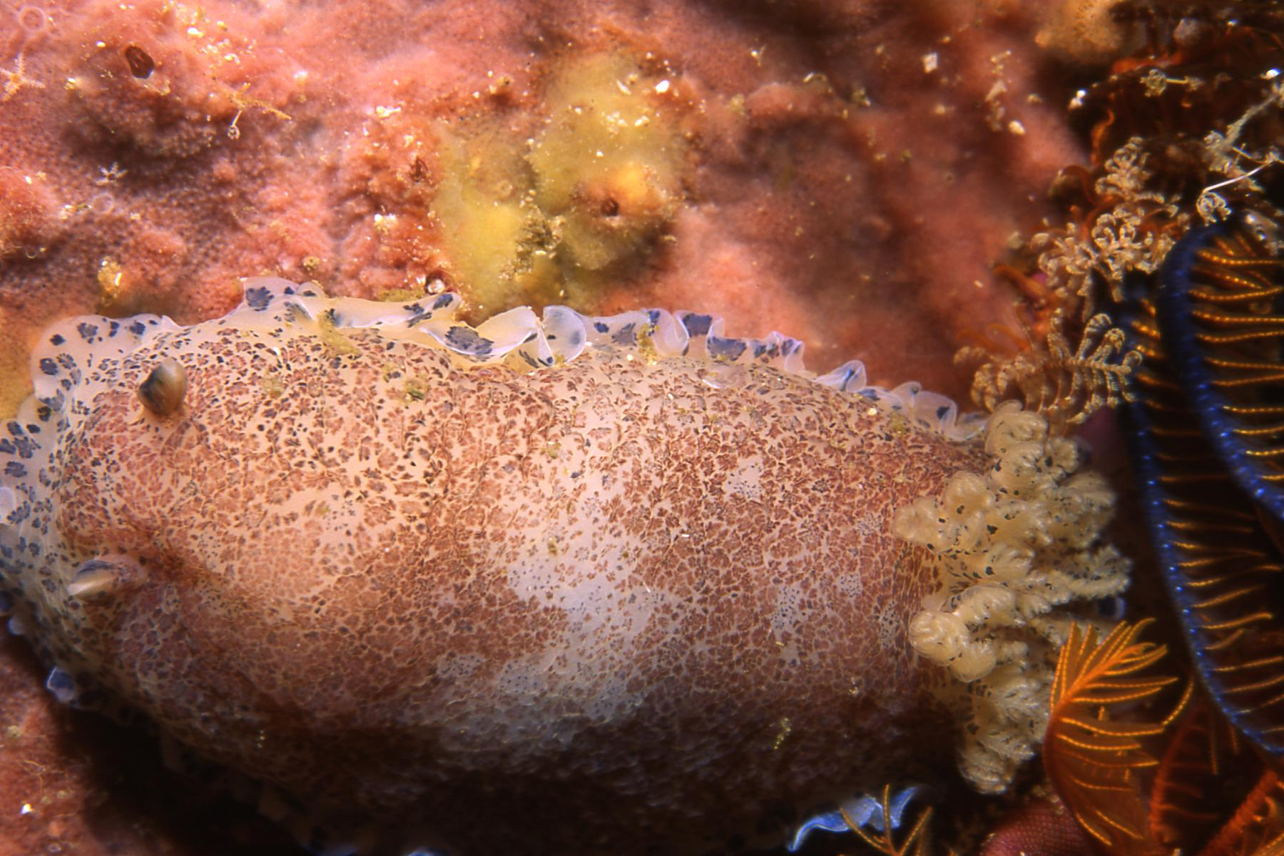 a photo of a pink morph of the blue-speckled nudibranch, Dendrodoris caesia, taken off the Cape Peninsula using a Nikonos V camera